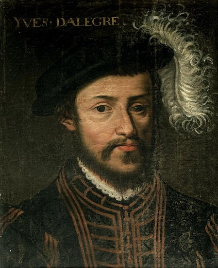 Portrait of Yves d'Alègre (c.1450-1512)